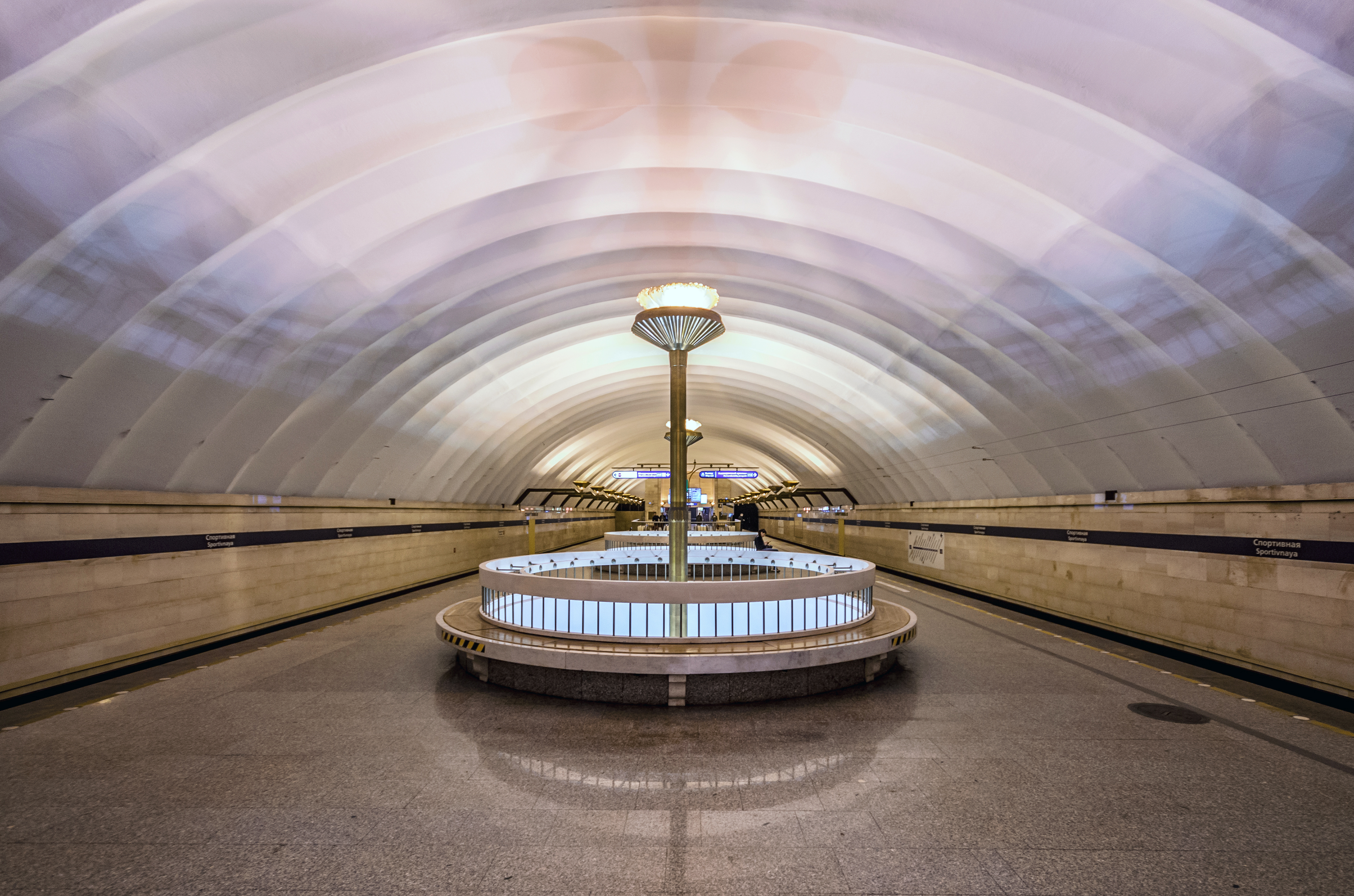 Sportivnaya subway station in Saint Petersburg, Upper Hall